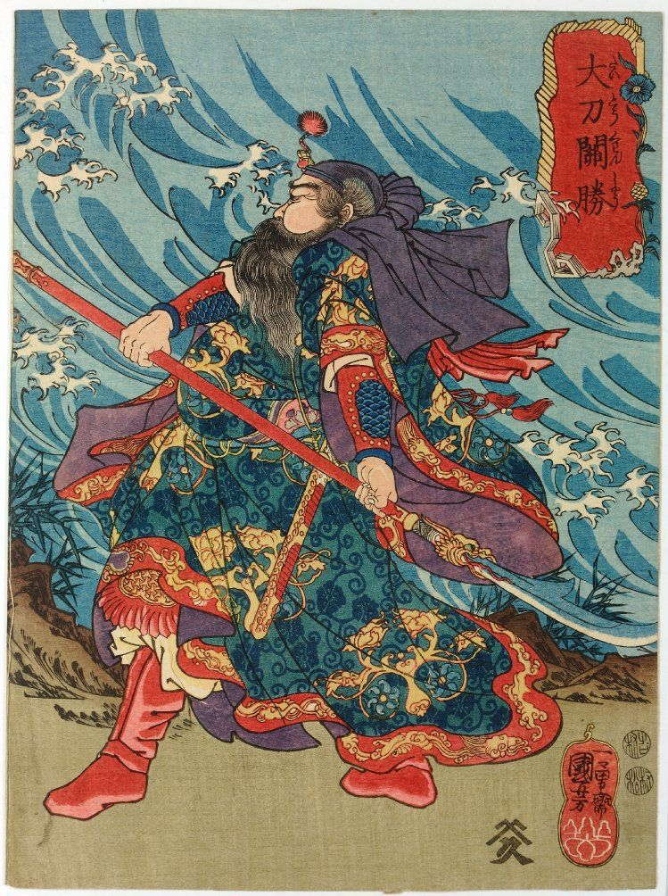 Guan Sheng (關勝) holding a long weapon, fierce waves behind him.